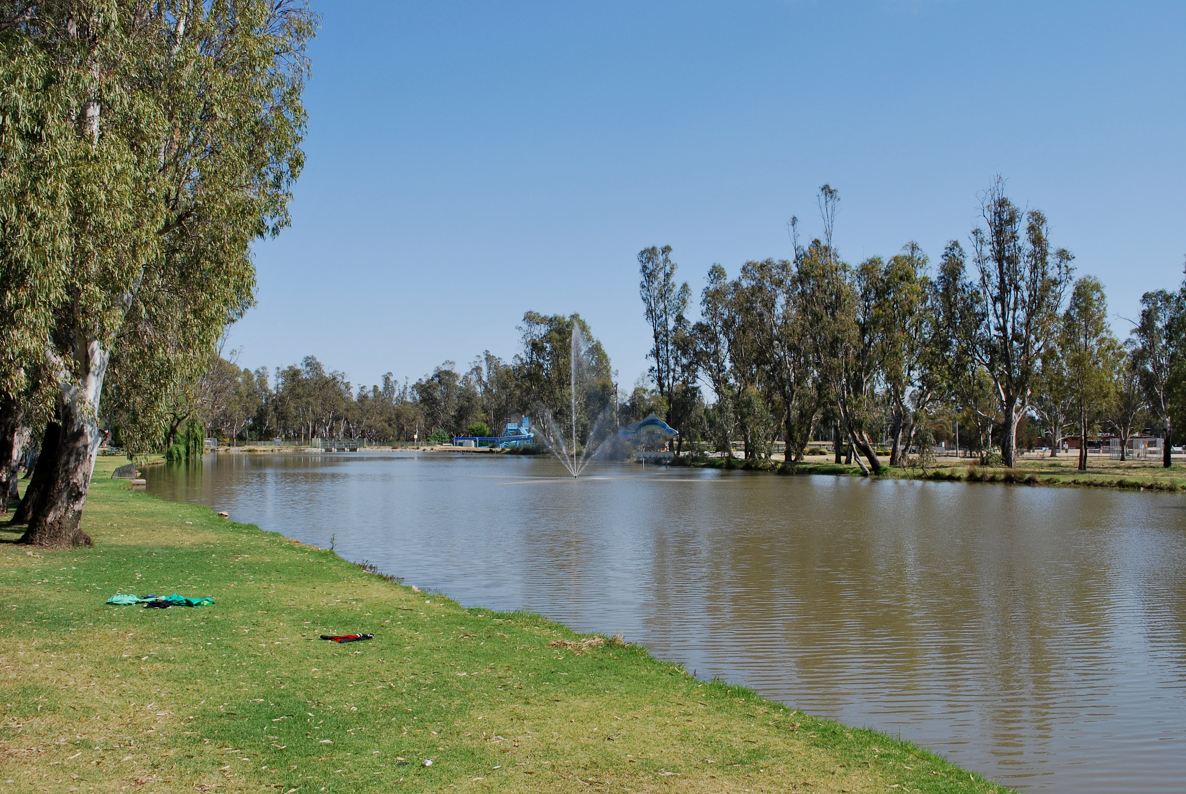 Gunbower Creek at Cohuna, Victoria, including a fountain